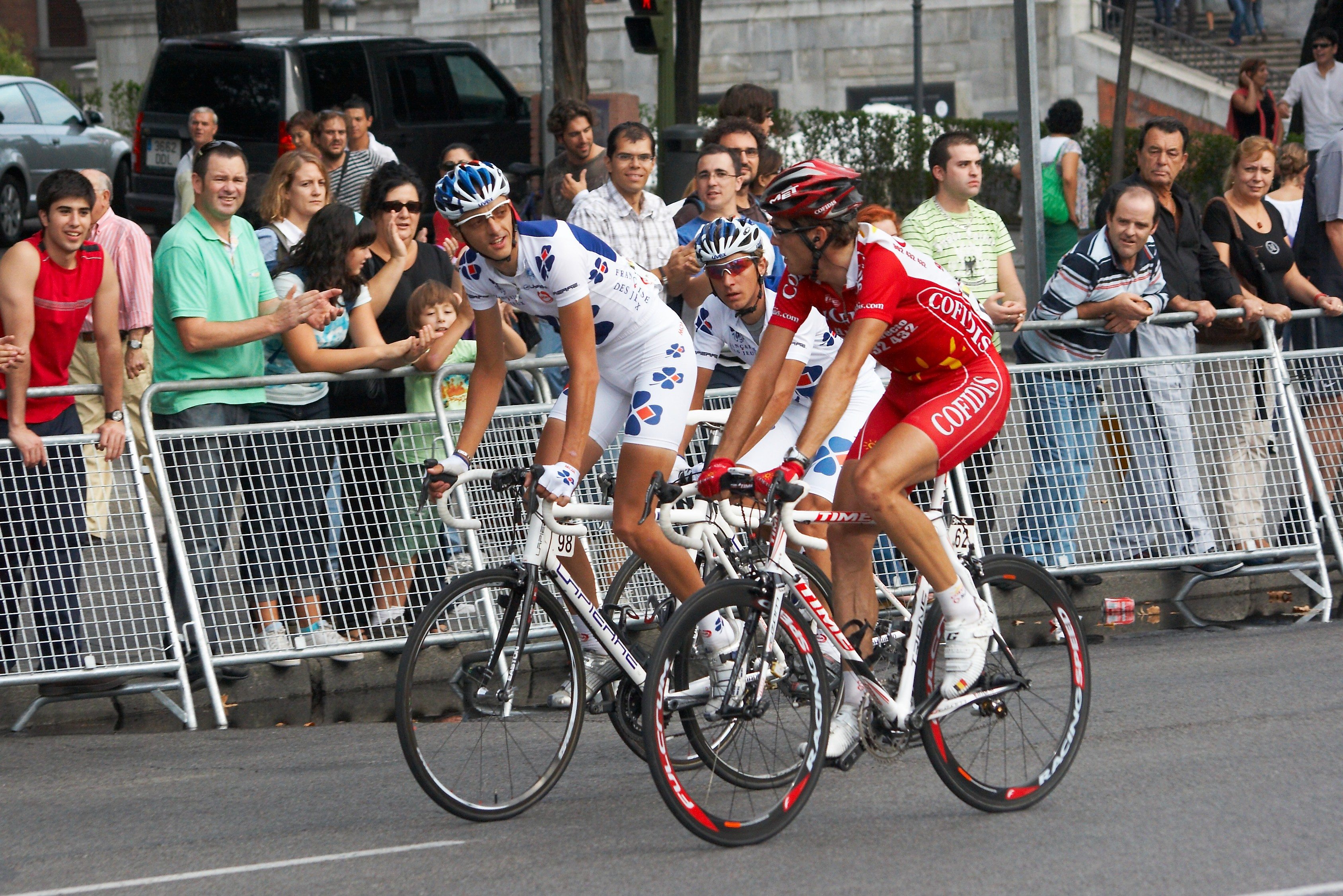 DE WEERT Kevin (62/BEL) and VANENDERT Jelle (98/BEL), 2008 Vuelta a España, Madrid, Spain.